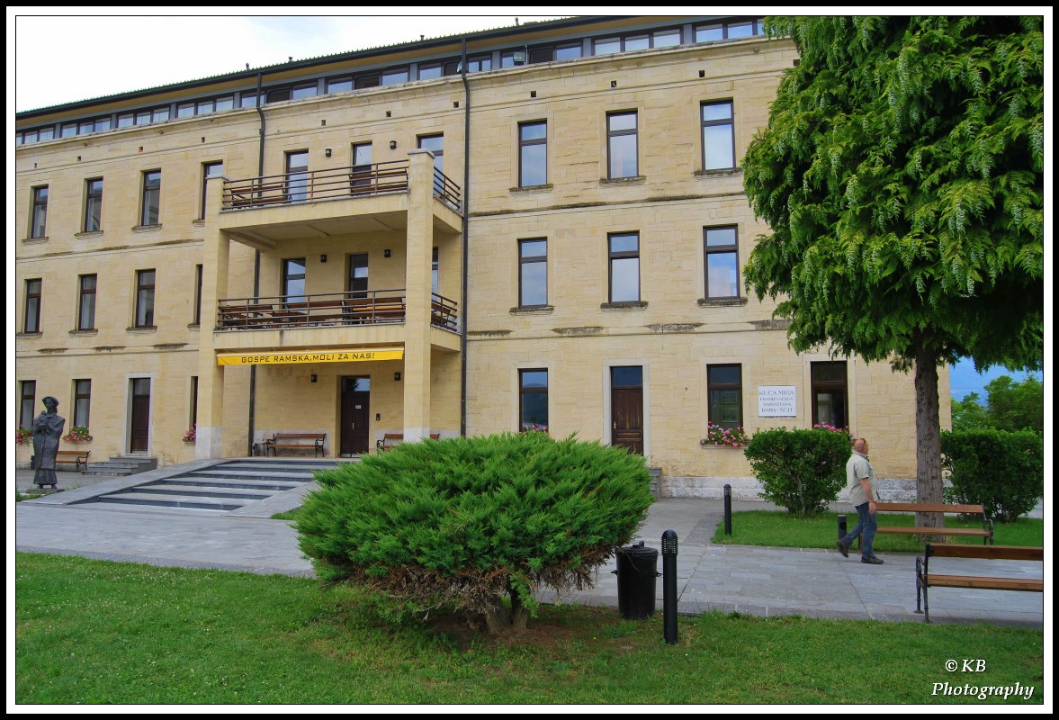 Franciscan monastery Rama-Šćit